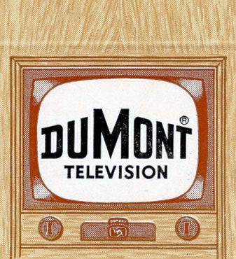 Chas L Bell Company - Matchbook - Allentown PA